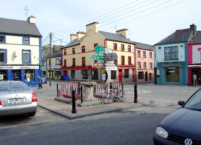 DUNMORE - The Square.